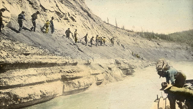 The Athabasca Tar Sands in Alberta, Canada c. 1900-1930